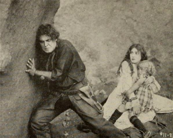 Still from the American western film Riders of the Purple Sage (1918) with William Farnum, Mary Mersch, and Nancy Caswell, on page 34 of the September 21, 1918 Exhibitors Herald.